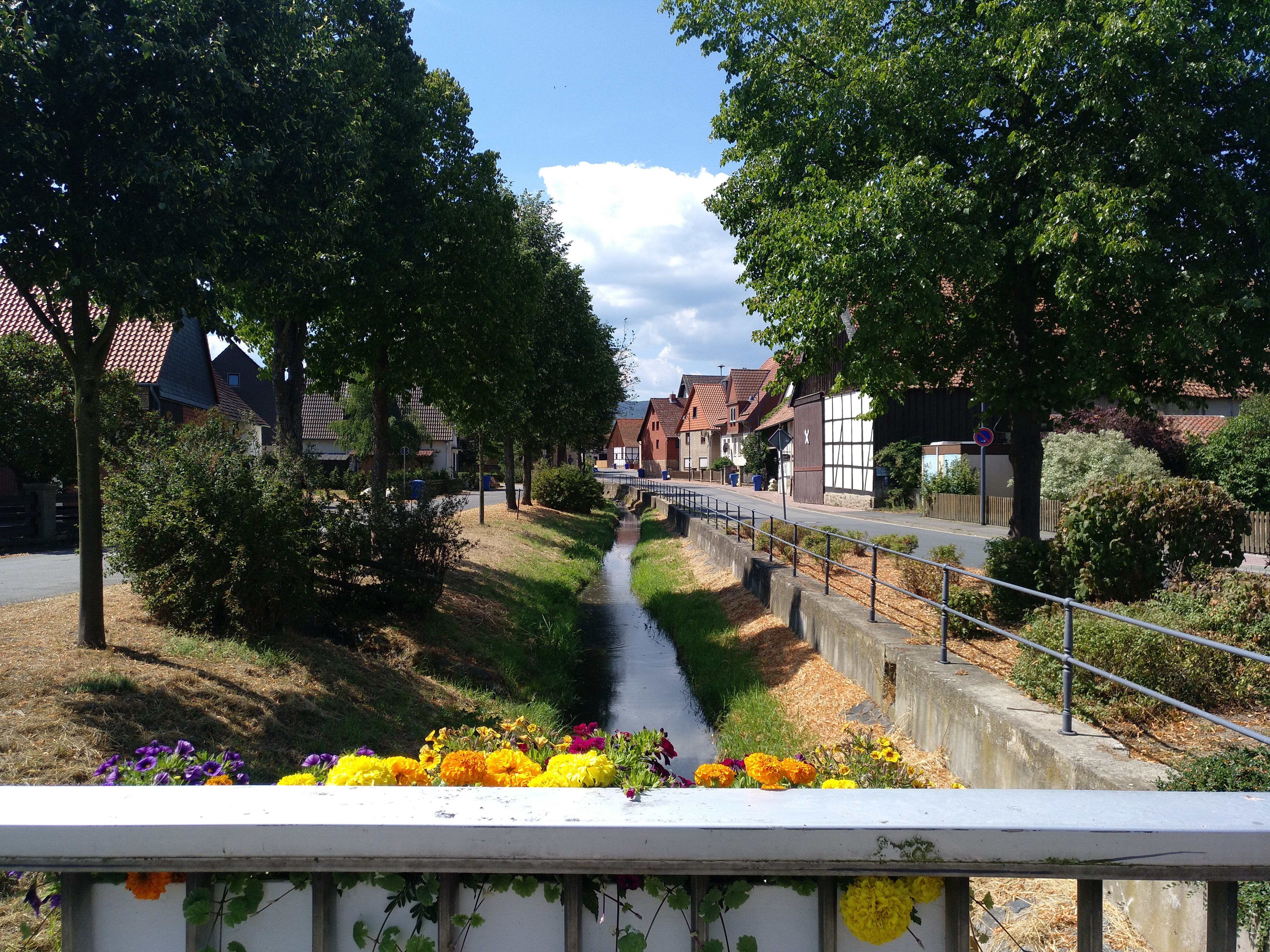 Schamlah creek in Bettingerode, Bad Harzburg